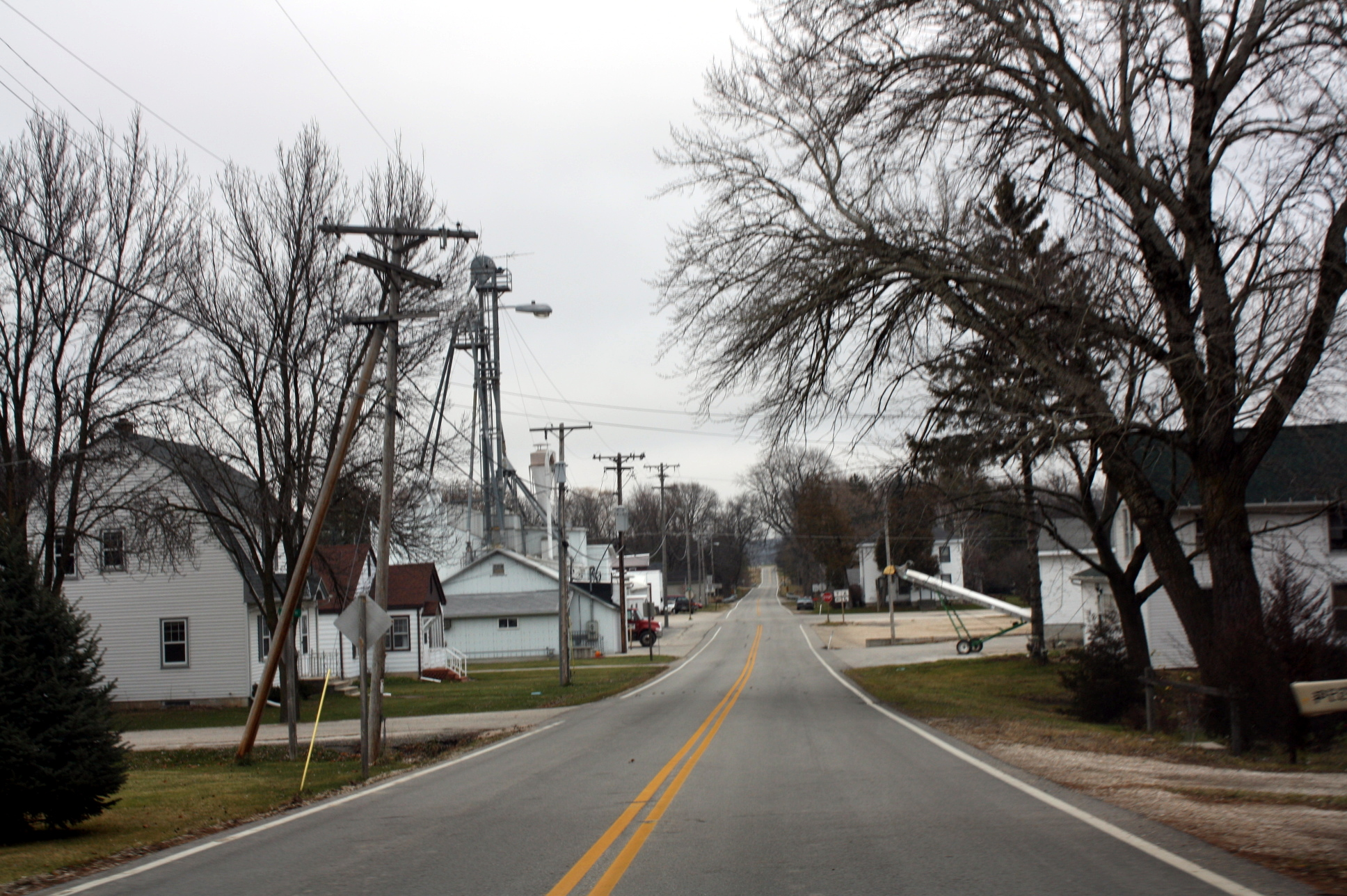 A view of Greenbush, Wisconsin.